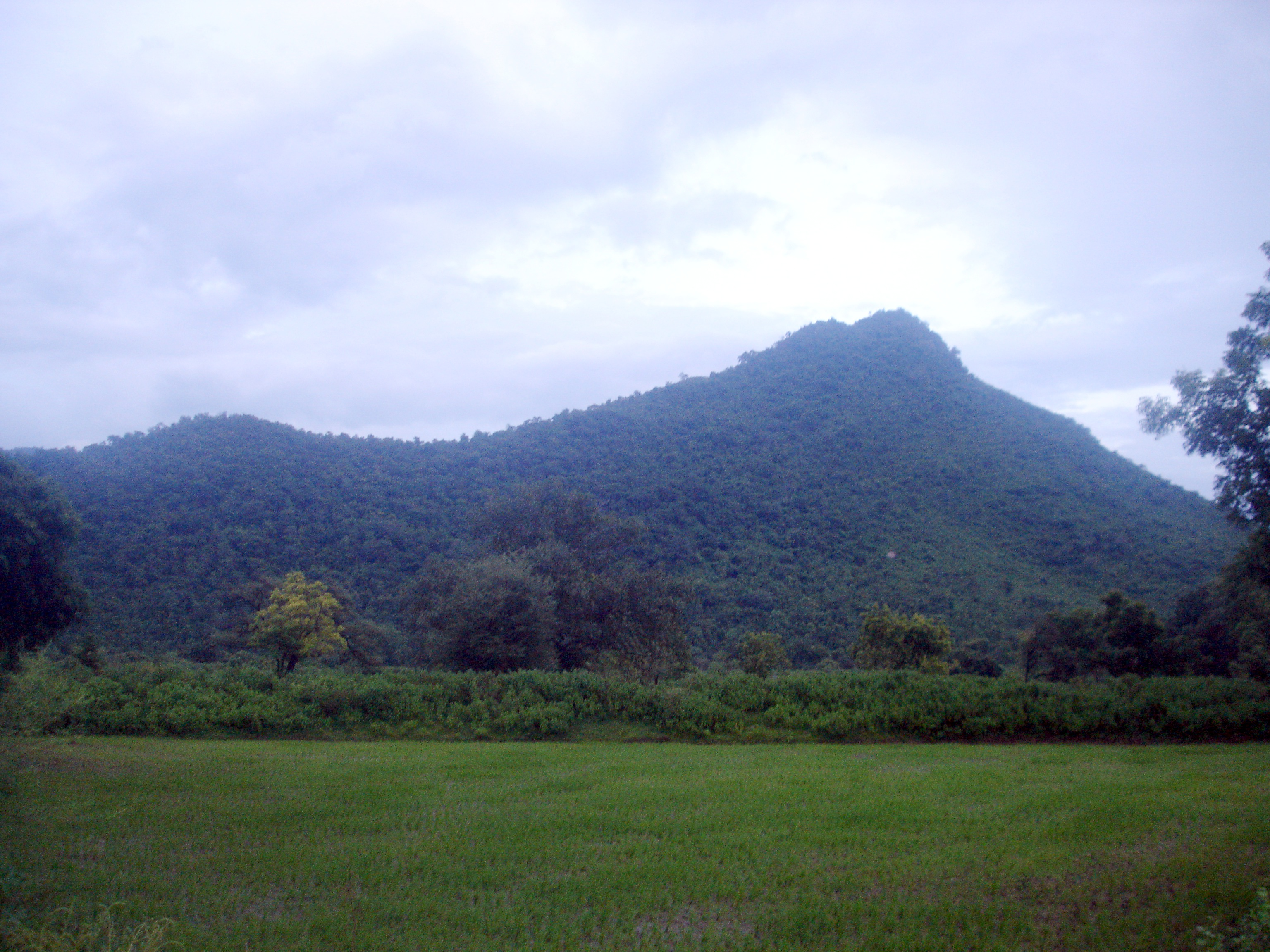 Mountain in Bandhkana